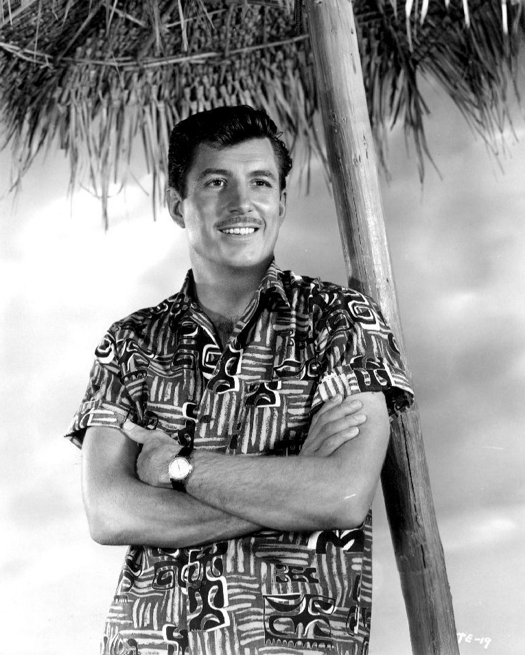 Photo of Anthony Eisley as Tracey Steele from the television program Hawaiian Eye.